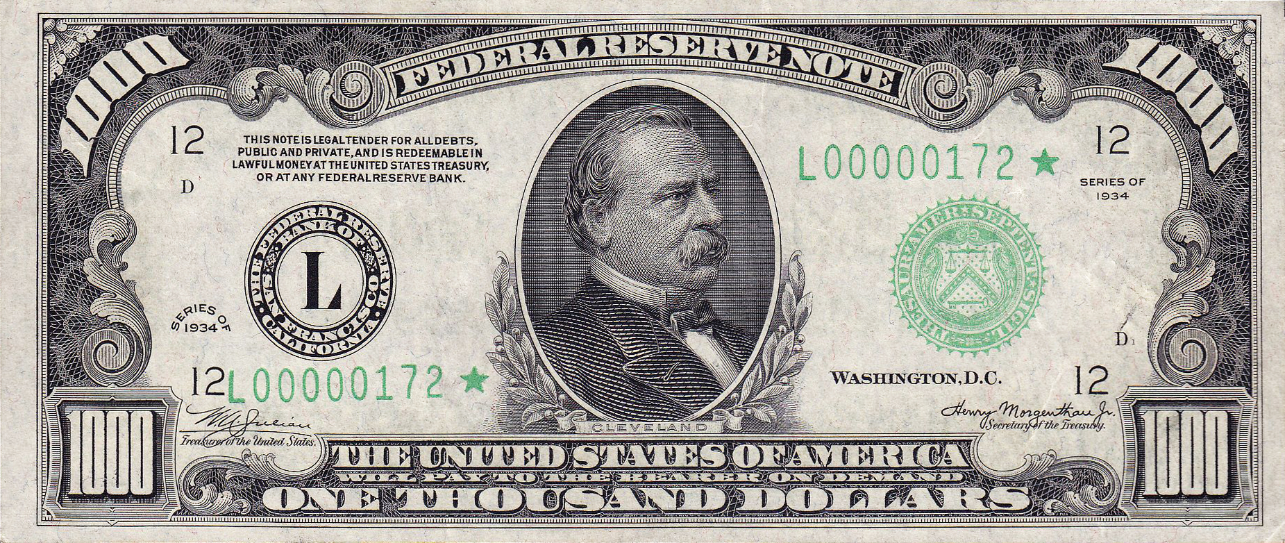 A 1934 series $1,000 United States banknote featuring the portrait of Grover Cleveland